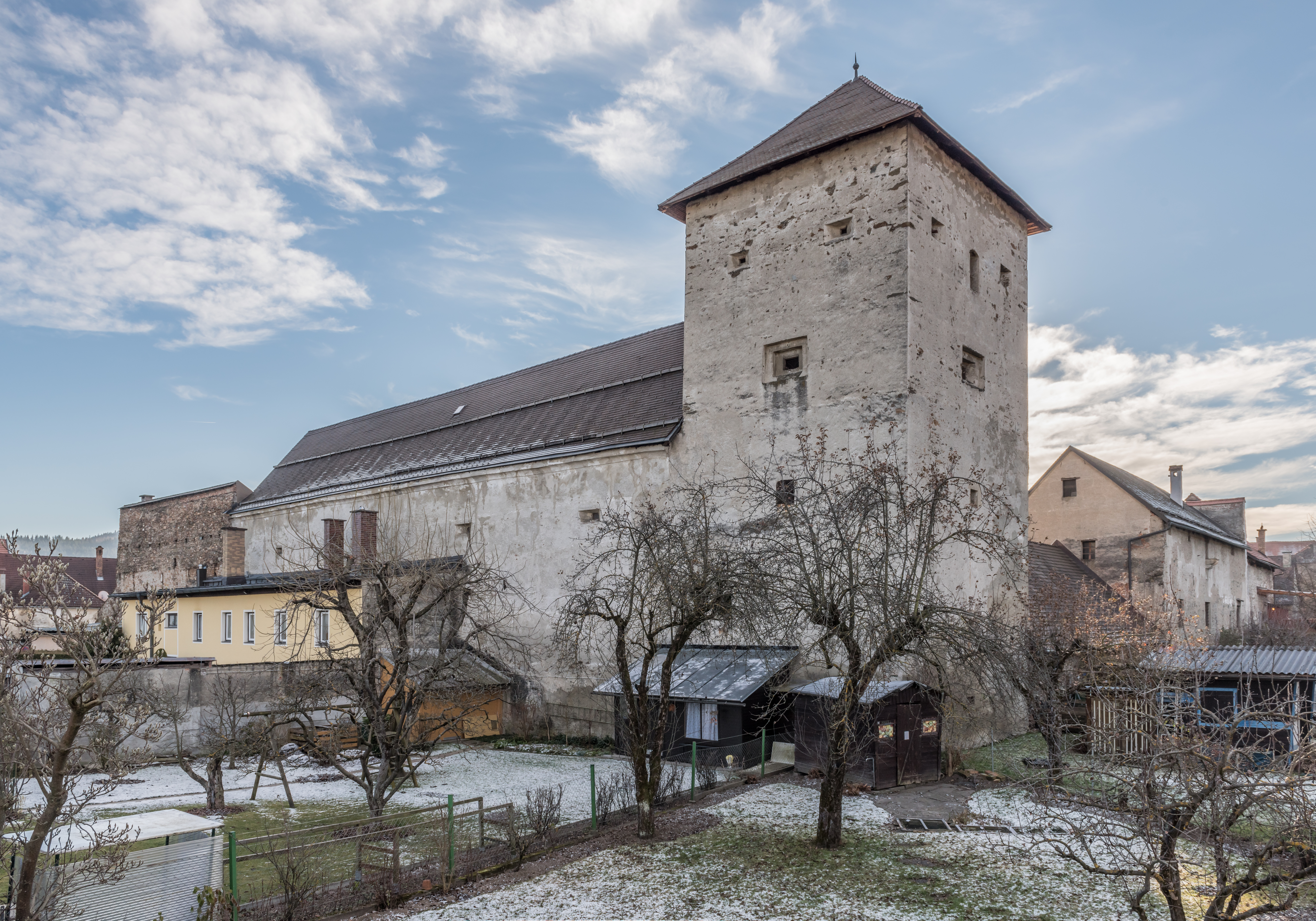 Dukes` castle on Burggasse #9, city of St. Veit an der Glan, district Sankt Veit, Carinthia, Austria, EU